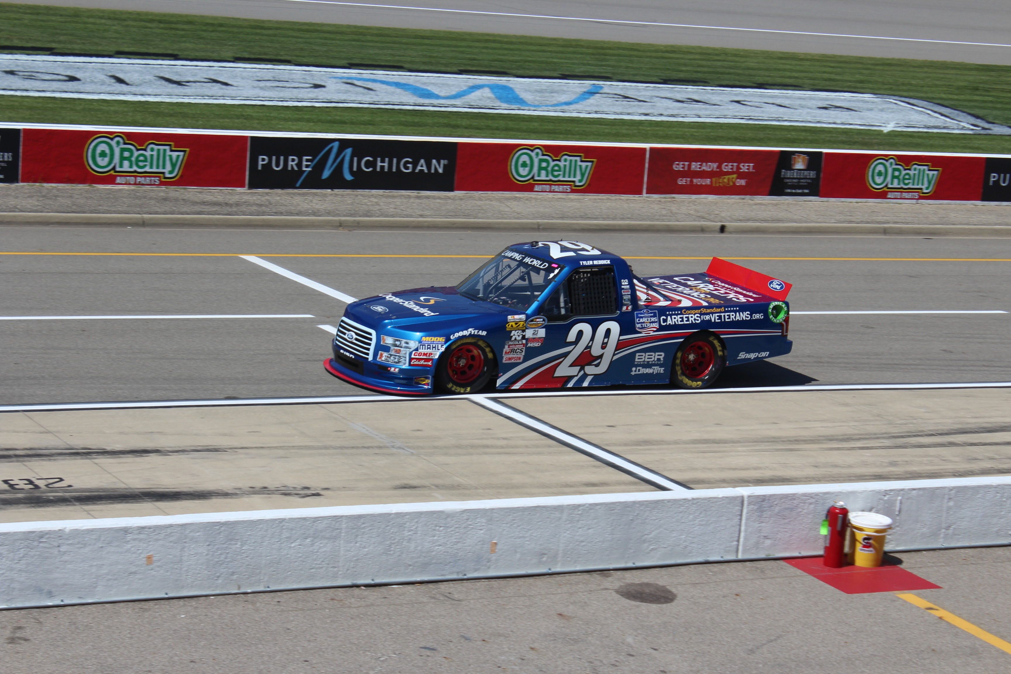 Tyler Reddick's #29 F-150, sporting a special-paint scheme for the Cooper-Standard "Career For Veterans" 200 at Michigan International Raceway.